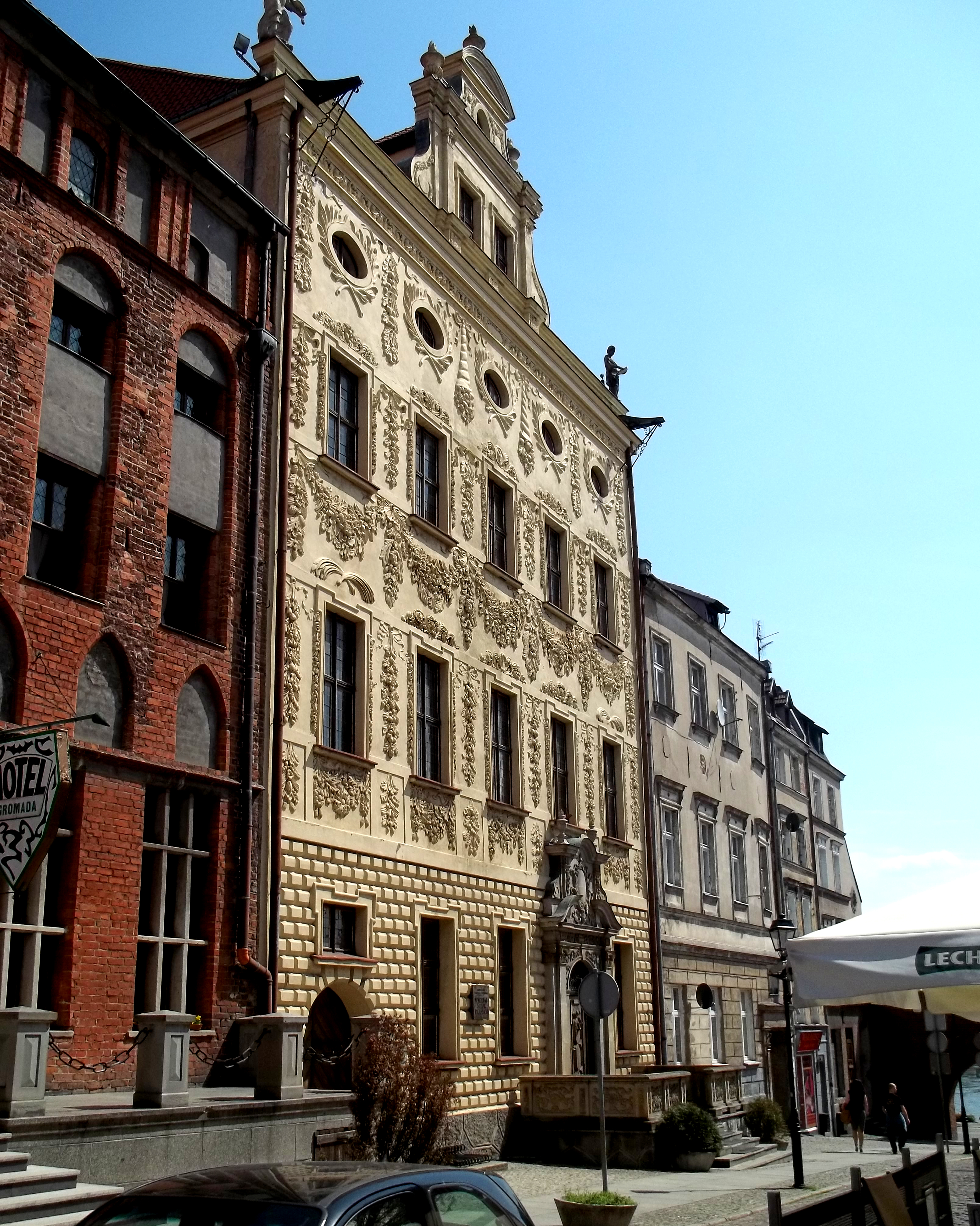 Pałac Dąmbskich